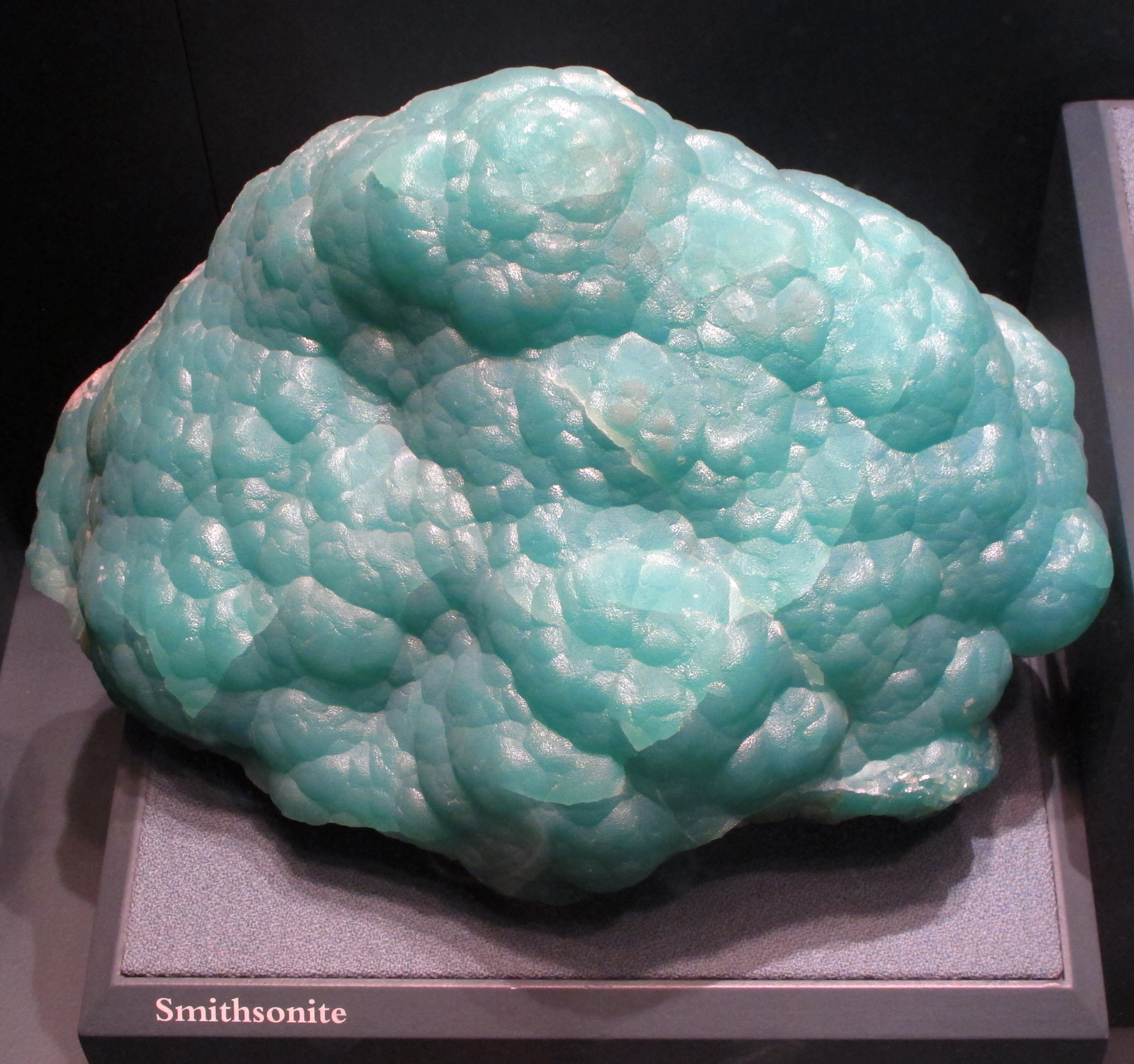 A Smithsonian specimen from Kelly Mine, Socorro County, New Mexico. Millions of small, needle-like crystals form each mound on this specimen. The mineral is named after James Smithsonian, founder of the Smithsonian Institution. He first recognized smithsonite as a distinct mineral. It is mined for zinc. Picture taken at the "Smithsonian National Museum of Natural History", Washington D.C, USA.